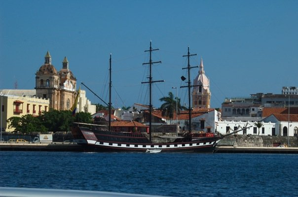 Cartagena Old town from the sea Name: Phantom Tall ship built: 1962 overall: 38 meters IMO ?